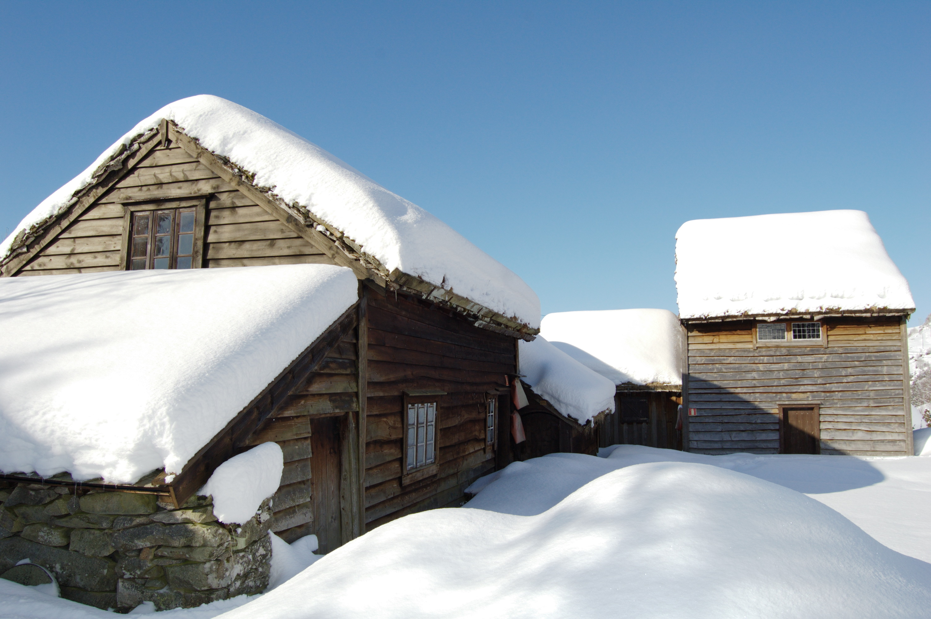 The open air museum at Gjerstad, Osterøy